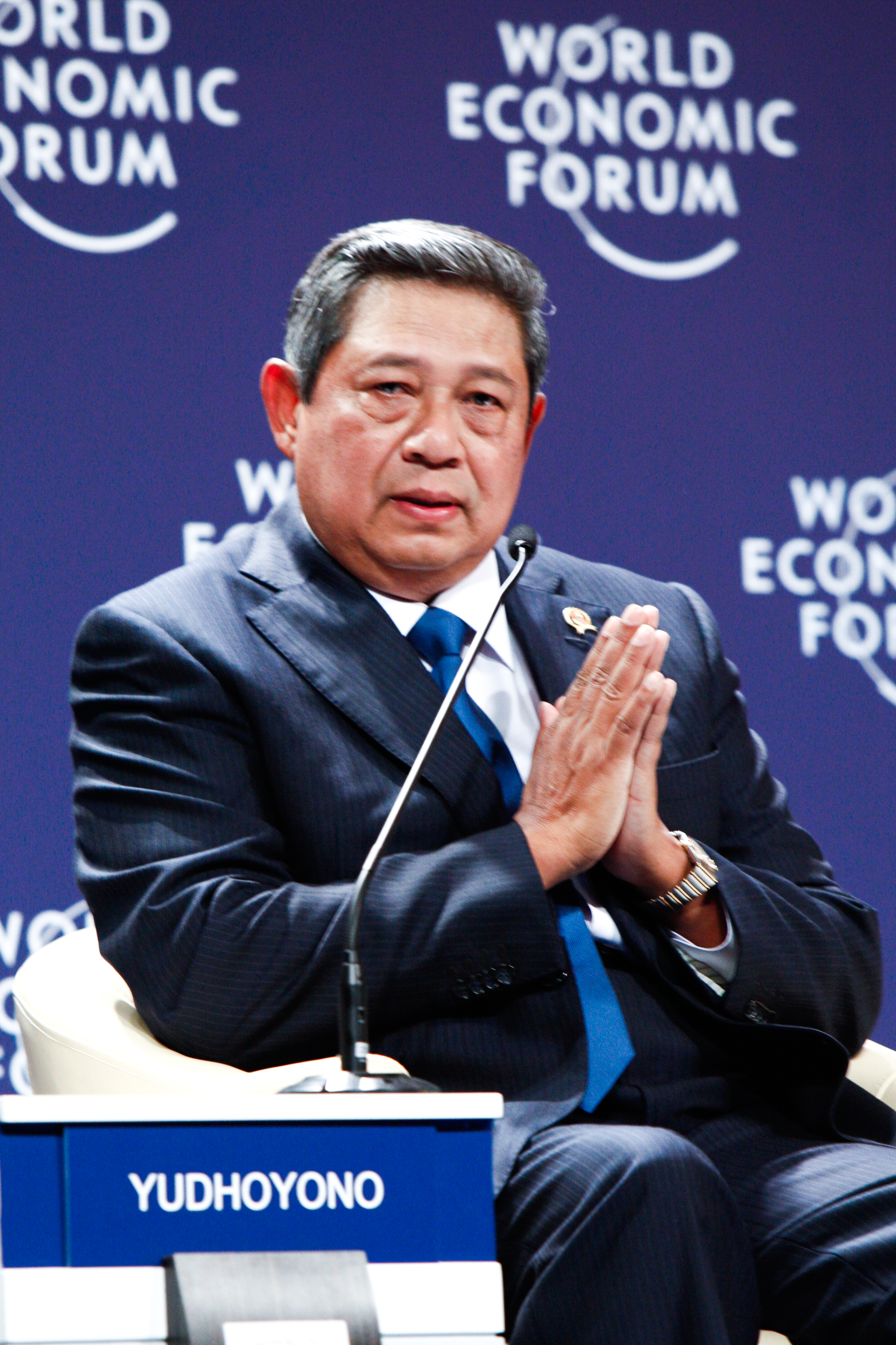 JAKARTA/INDONESIA, 12JUN11 - Susilo Bambang Yudhoyono, President of Indonesia; Chair, 2011 ASEAN, captured during the Open Ceremony at the World Economic Forum on East Asia in Jakarta, Indonesia, June 12, 2011. Copyright World Economic Forum ( by Sikarin Thanachaiary